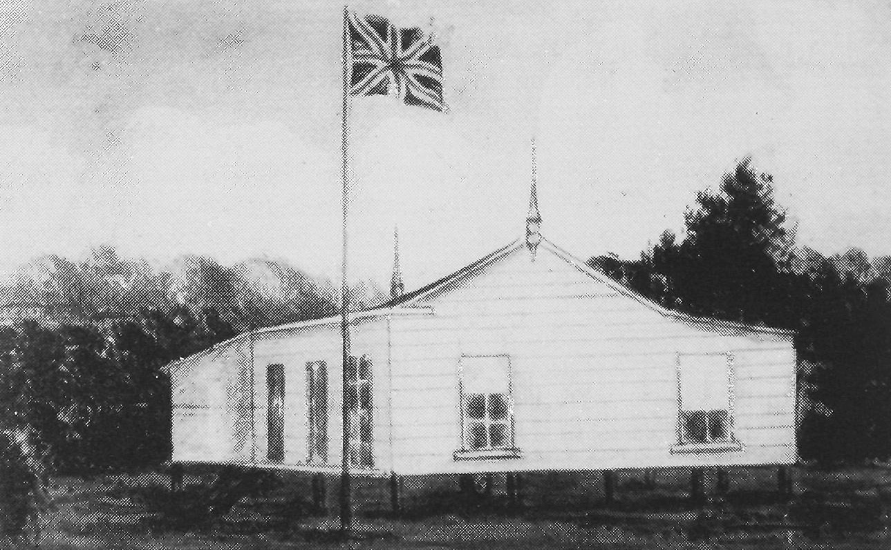 Watercolour of Marine Officer's Quarters, Somerset, 1866 and painted by J.O. Burgess, midshipman on H.M.S. Salamander. Dixson Gallery, Sydney.